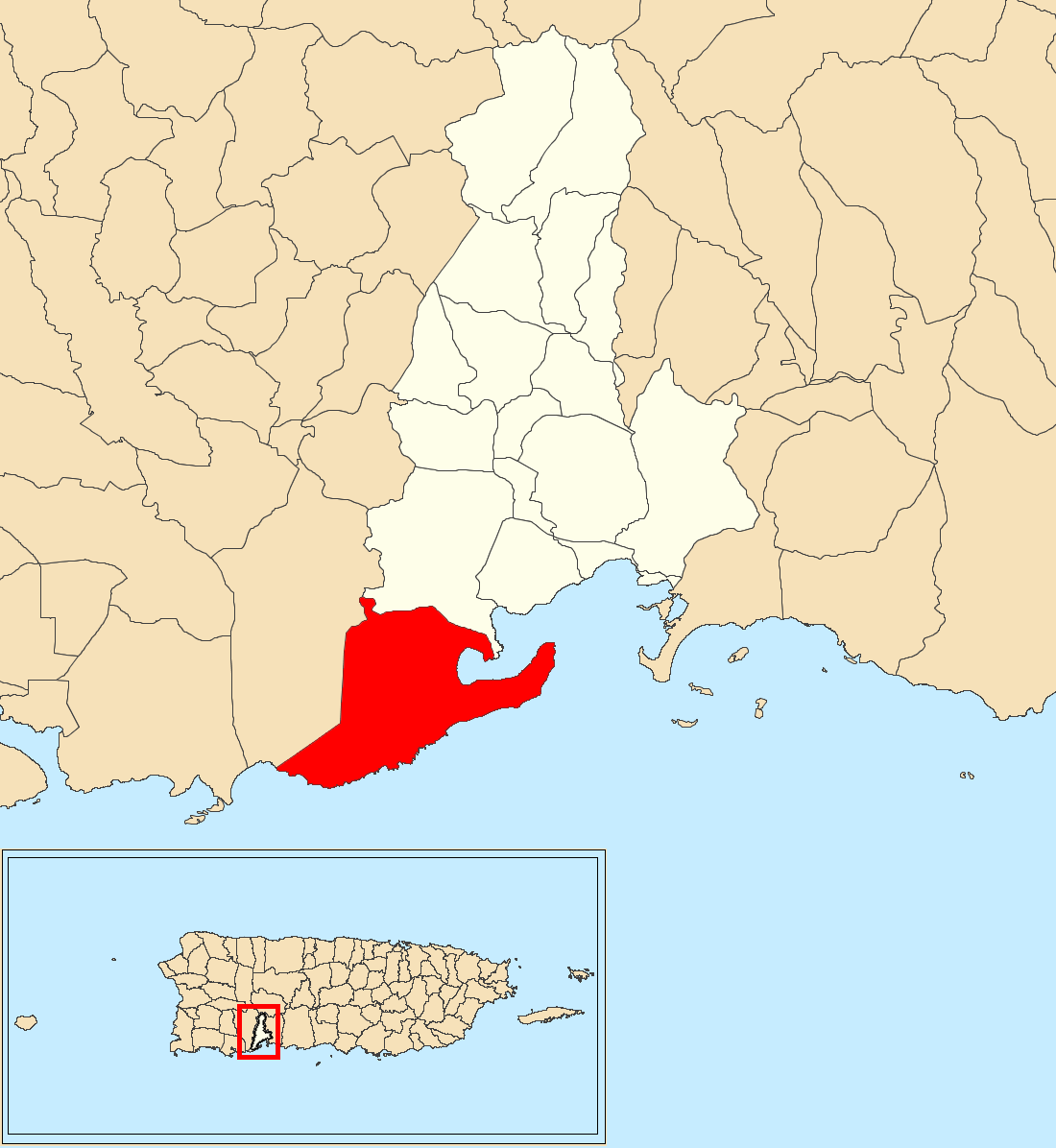 Boca, Guayanilla, Puerto Rico locator map